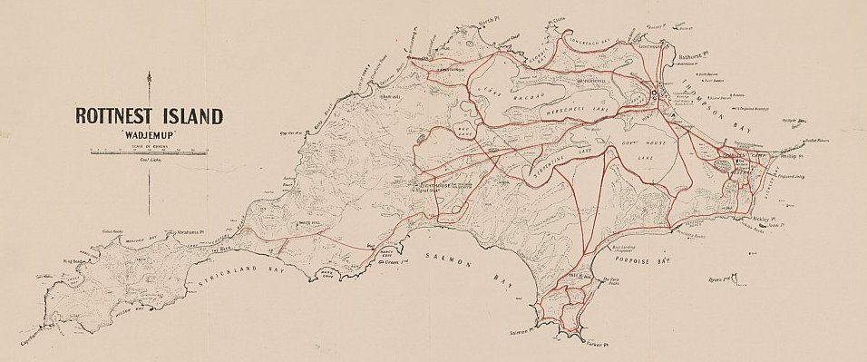 Map of Rottnest Island. From Daisy Bates cartographical collection - National Library of Australia. Daisy Bates Special Col. /107.